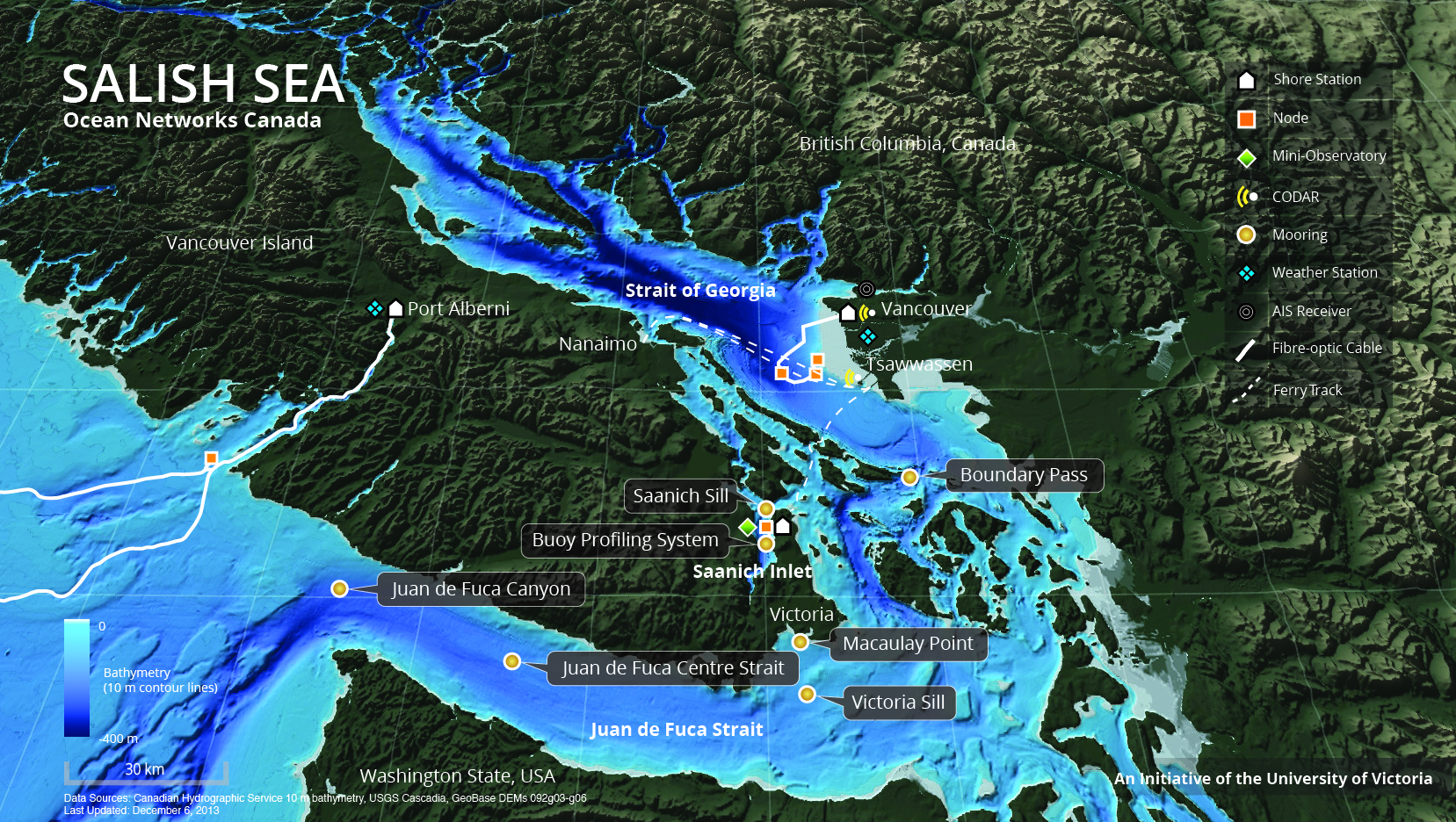 Ocean Networks Canada installations and data sources in the Salish Sea.